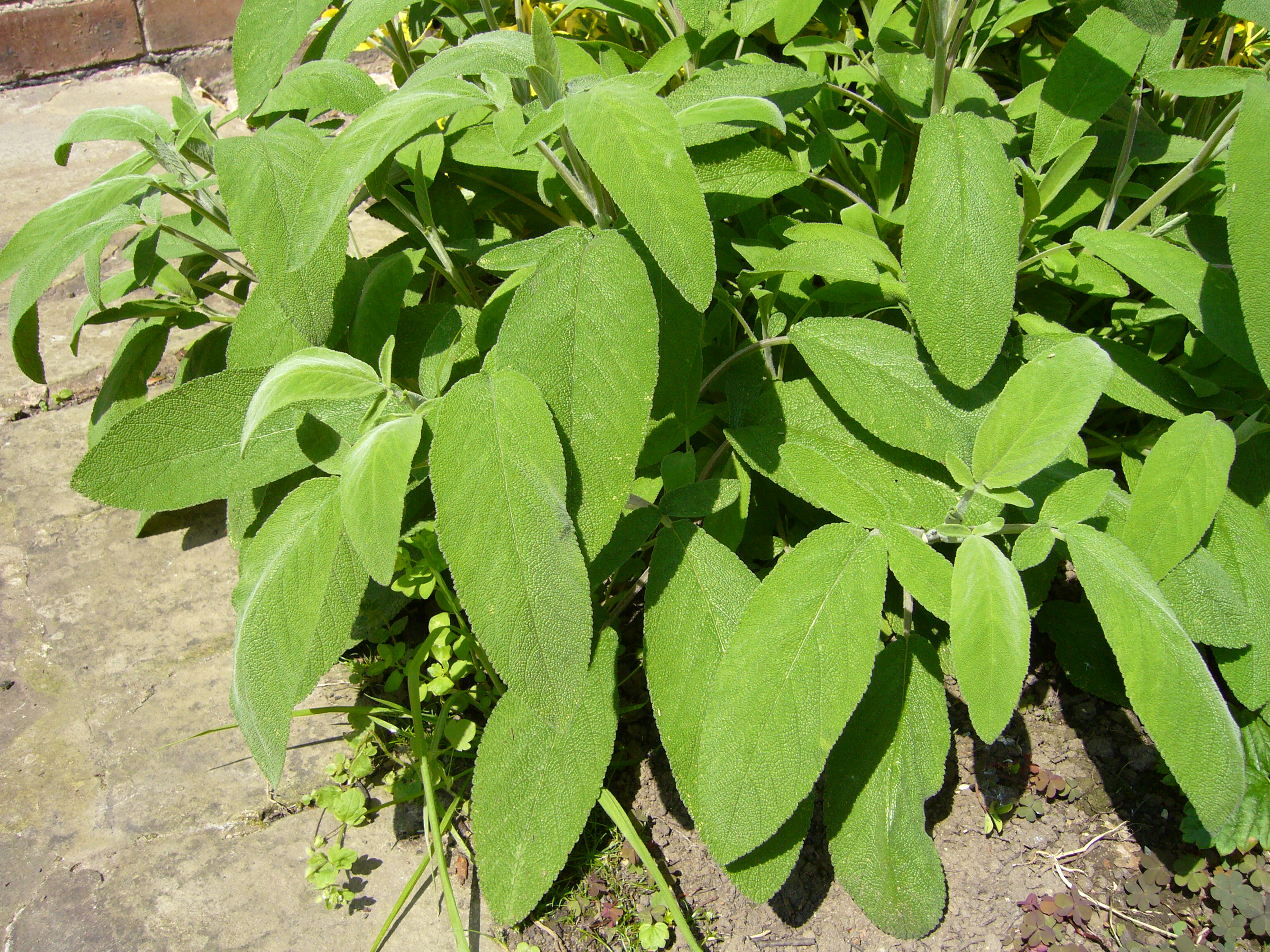 The leaves of sage.